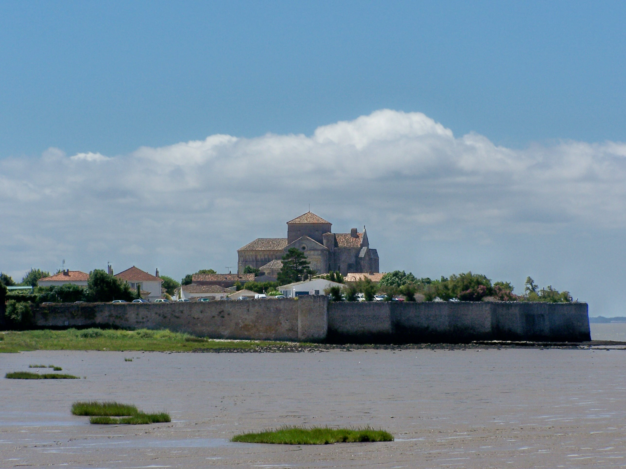 Sight from the northwestern bay of Talmont-sur-Gironde (Charente-Maritime, France)